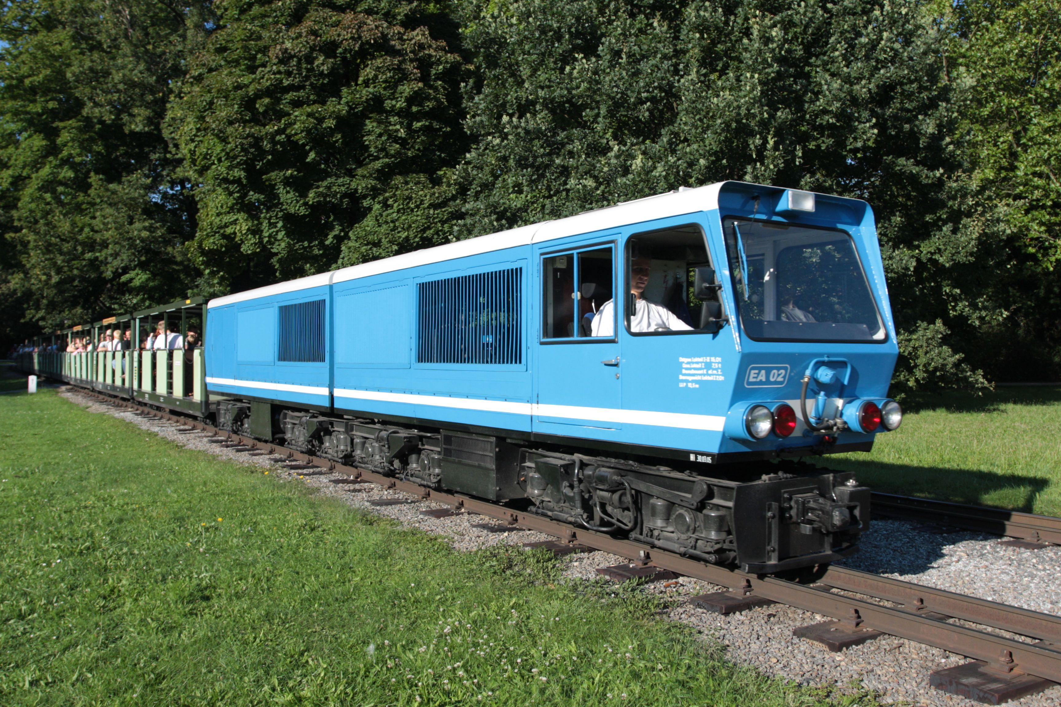 blue engine (Dresden Park Railway)